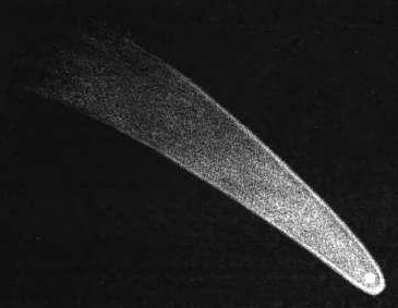 The Great Comet of 1811, drawn by William Henry Smyth, from Amédée Guillemin's The Heavens